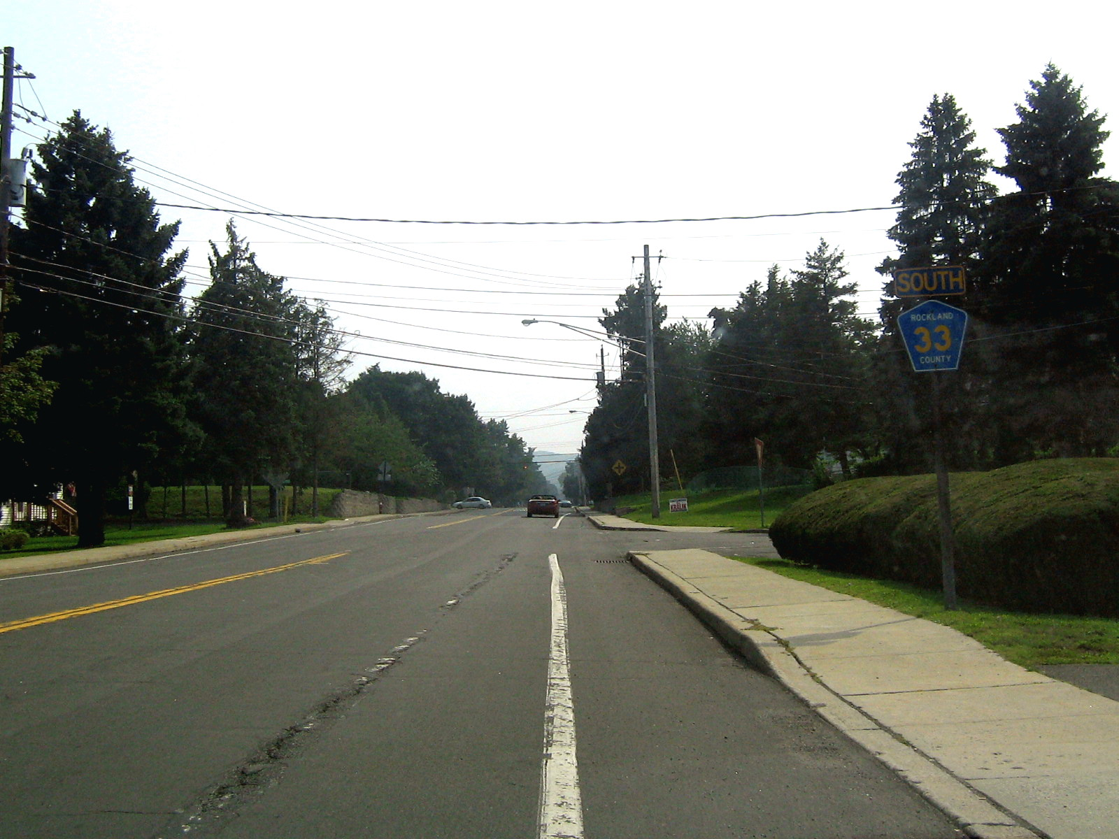 CR 33 begins here at CR 106 in Stony Point.